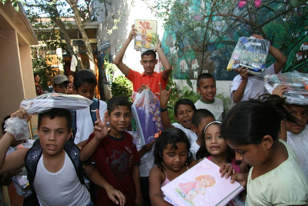 Child sporsorship in Nicaragua, Matagalpa